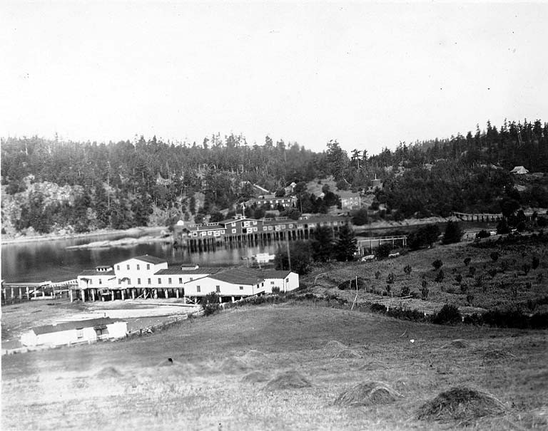 From John Cobb field notebook: Salmon canneries at Deer Harbor, Wash. G.W. Hume Co. in foreground, Deer Harbor Fisheries Co. in background, 1919 Subjects (LCTGM): Canneries--Washington (State)--Deer Harbor Subjects (LCSH): George W. Hume Company; Deer Harbor Fisheries Company; Salmon canning industry--Washington (State)--Deer Harbor